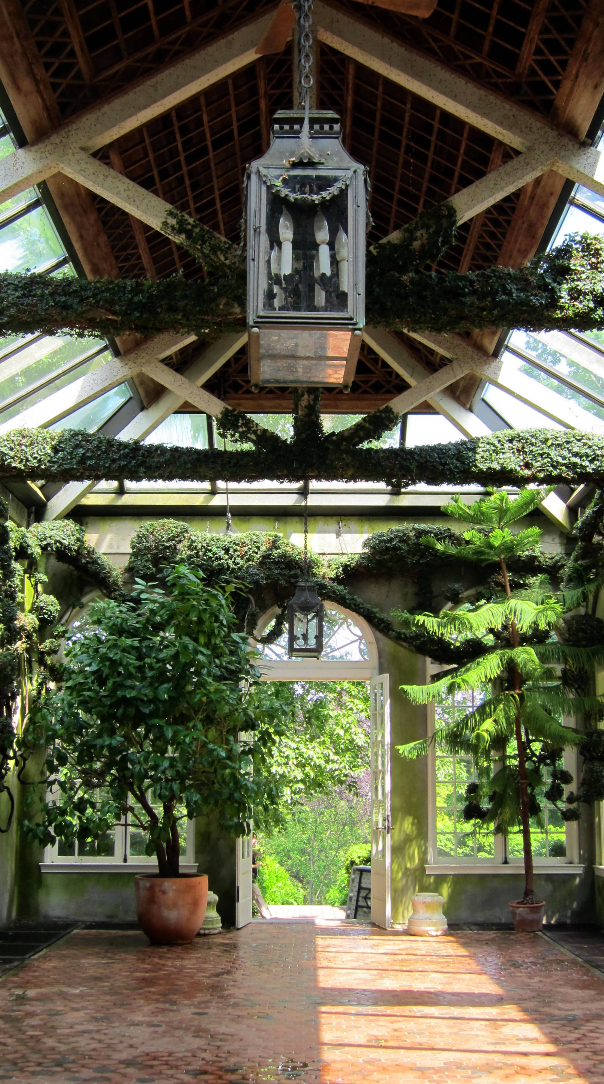 The solarium at Dumbarton Oaks in Washington, D.C.